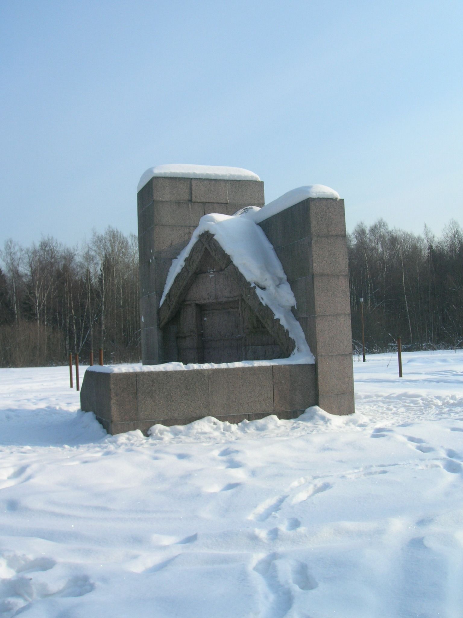 Lenin's shelter near Sestroretsk